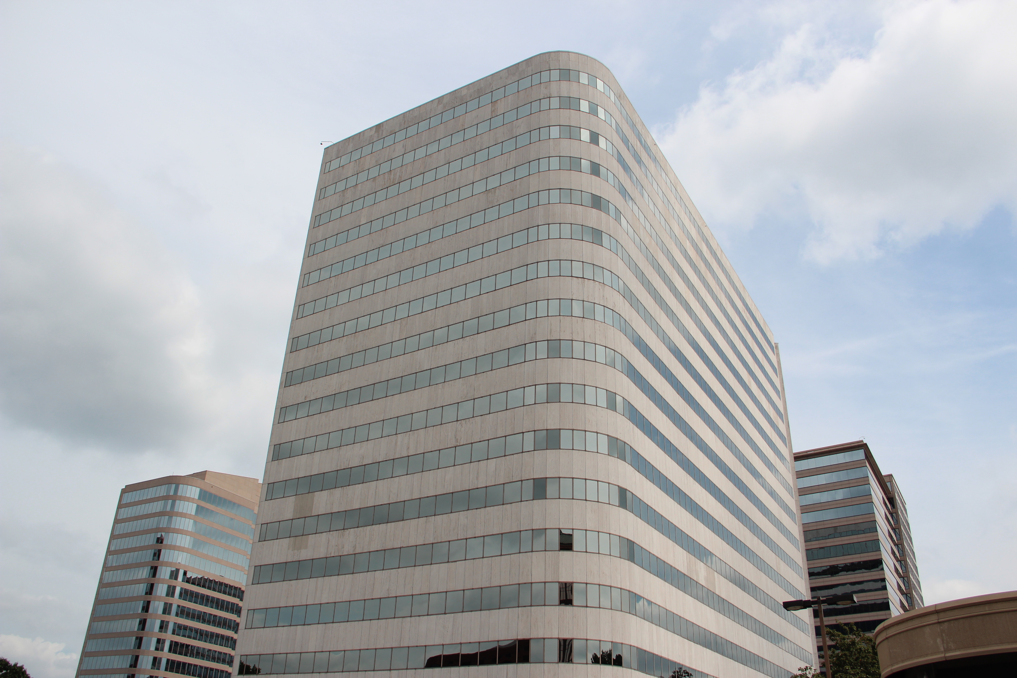 100 Galleria Pkwy, Cumberland, GA